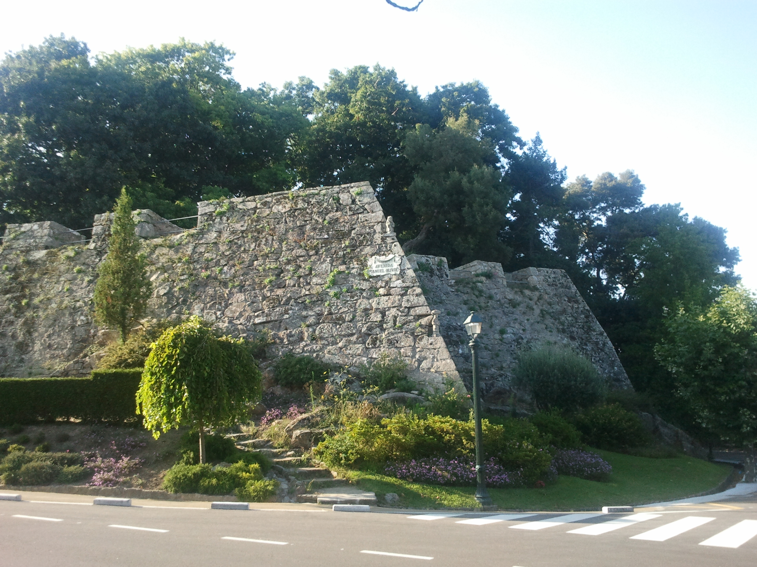 Part of one of the walls of the fortress